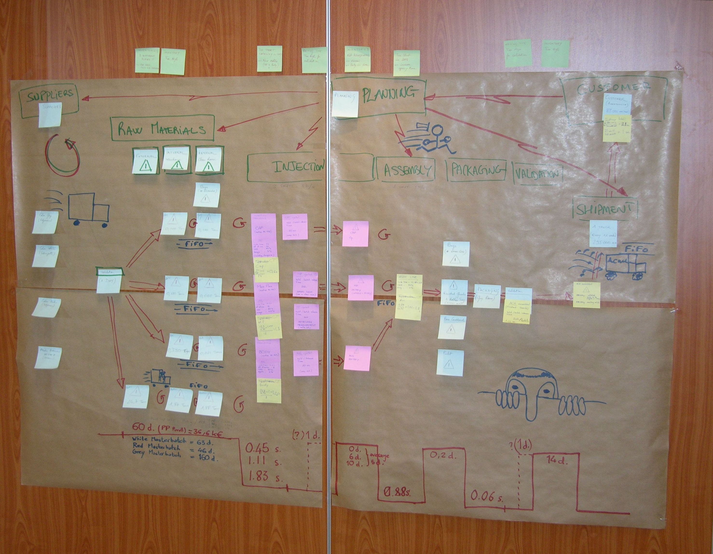 Value stream map